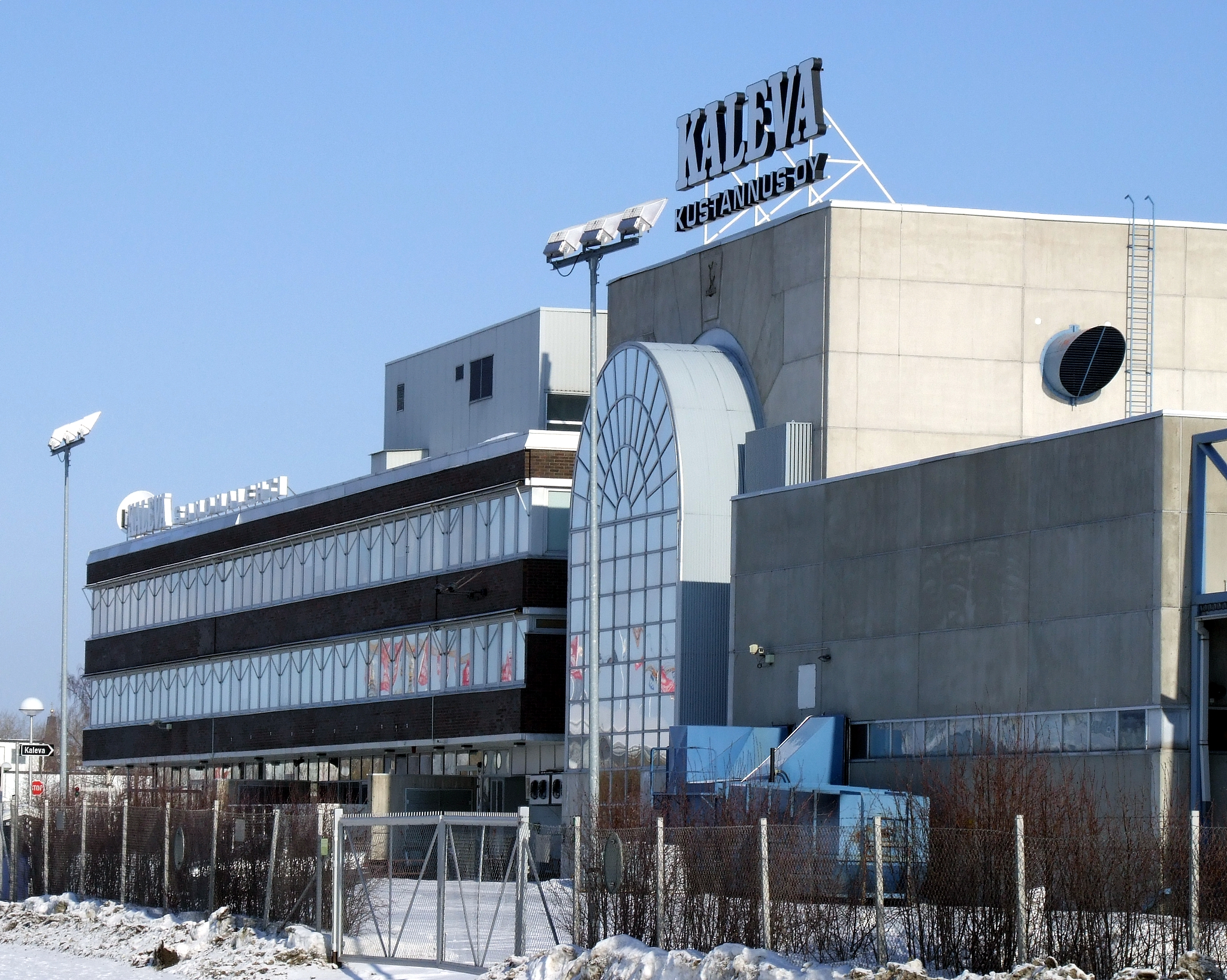 The head office and printing house of the newspaper Kaleva – the main newspaper of Northern Finland – in Karjasilta neighbourhood in Oulu, Finland. The building was designed by architect Seppo Valjus and completed in 1964.